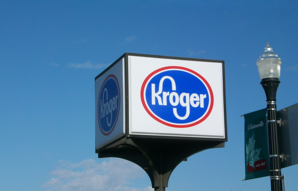 Kroger sign at North High Street and West North Broadway